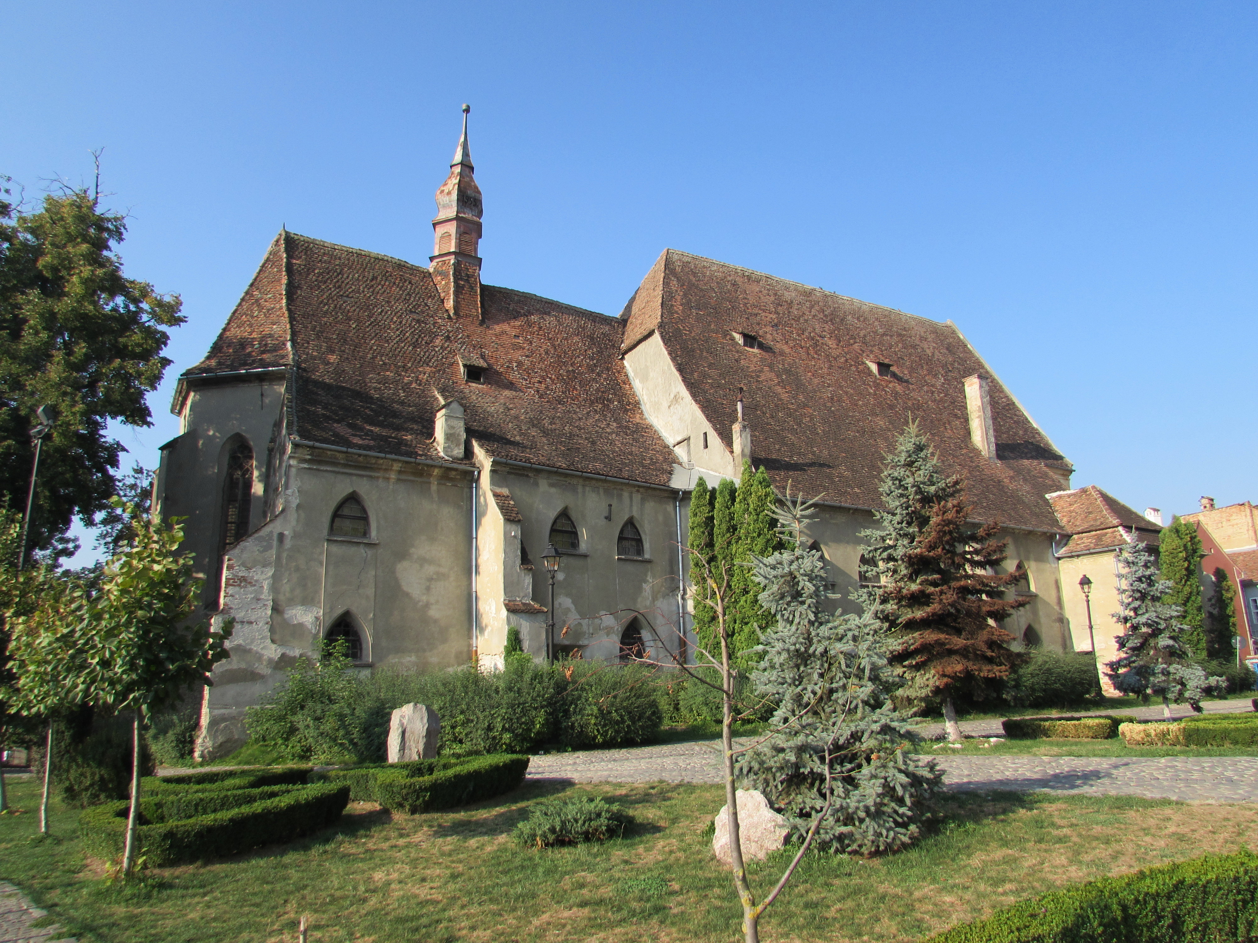 Monastery Church in Sighișoara